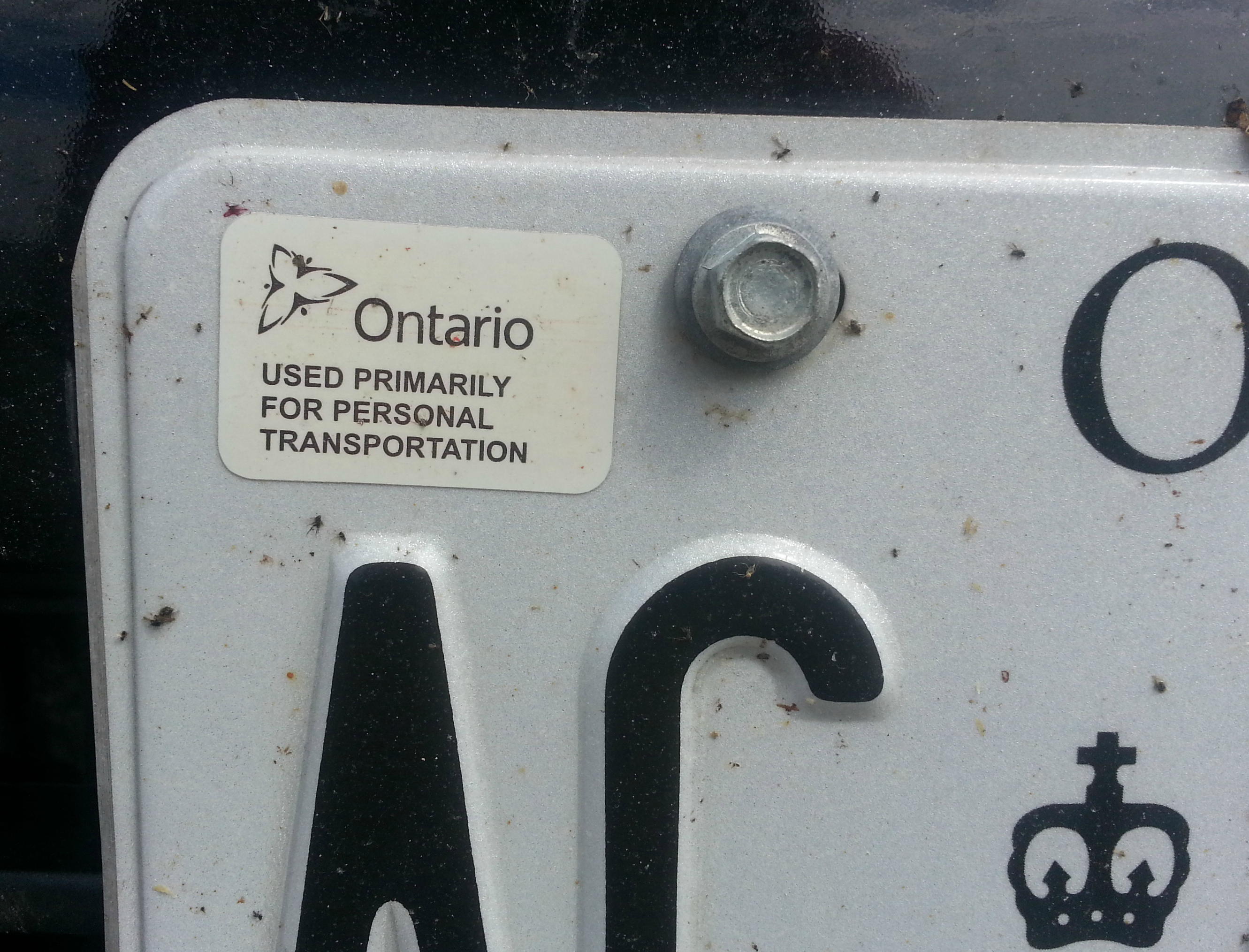 Sticker placed on front commercial license plates in Ontario to identify a vehicle exempt from certain commercial licensing requirements. Vehicles tend to be trucks which require commercial plates due to their size, but are only used as private passenger vehicles.